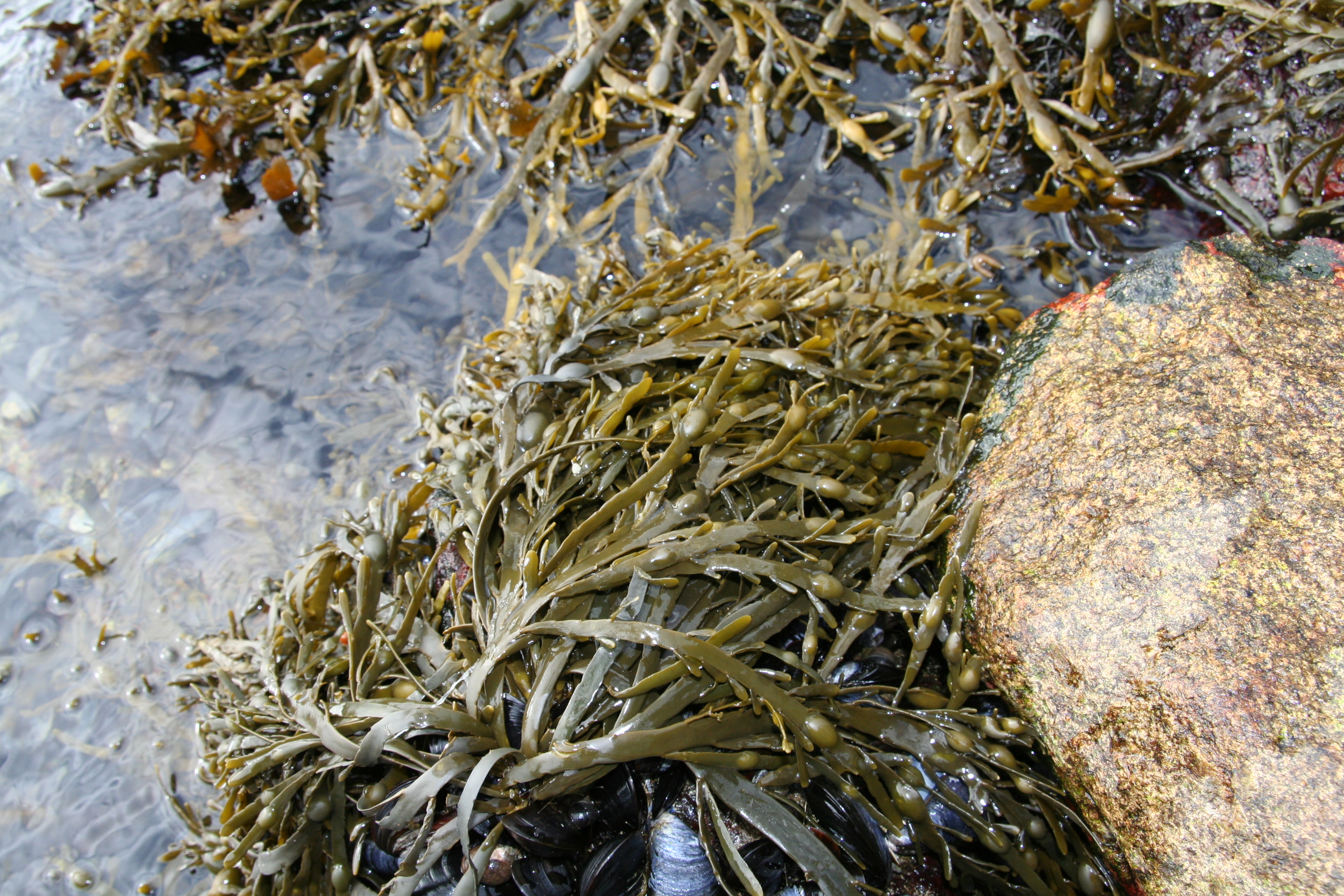 Norwegian Kelp (Ascophyllum nodosum) from Hoegsfjord in Rogaland, Norway